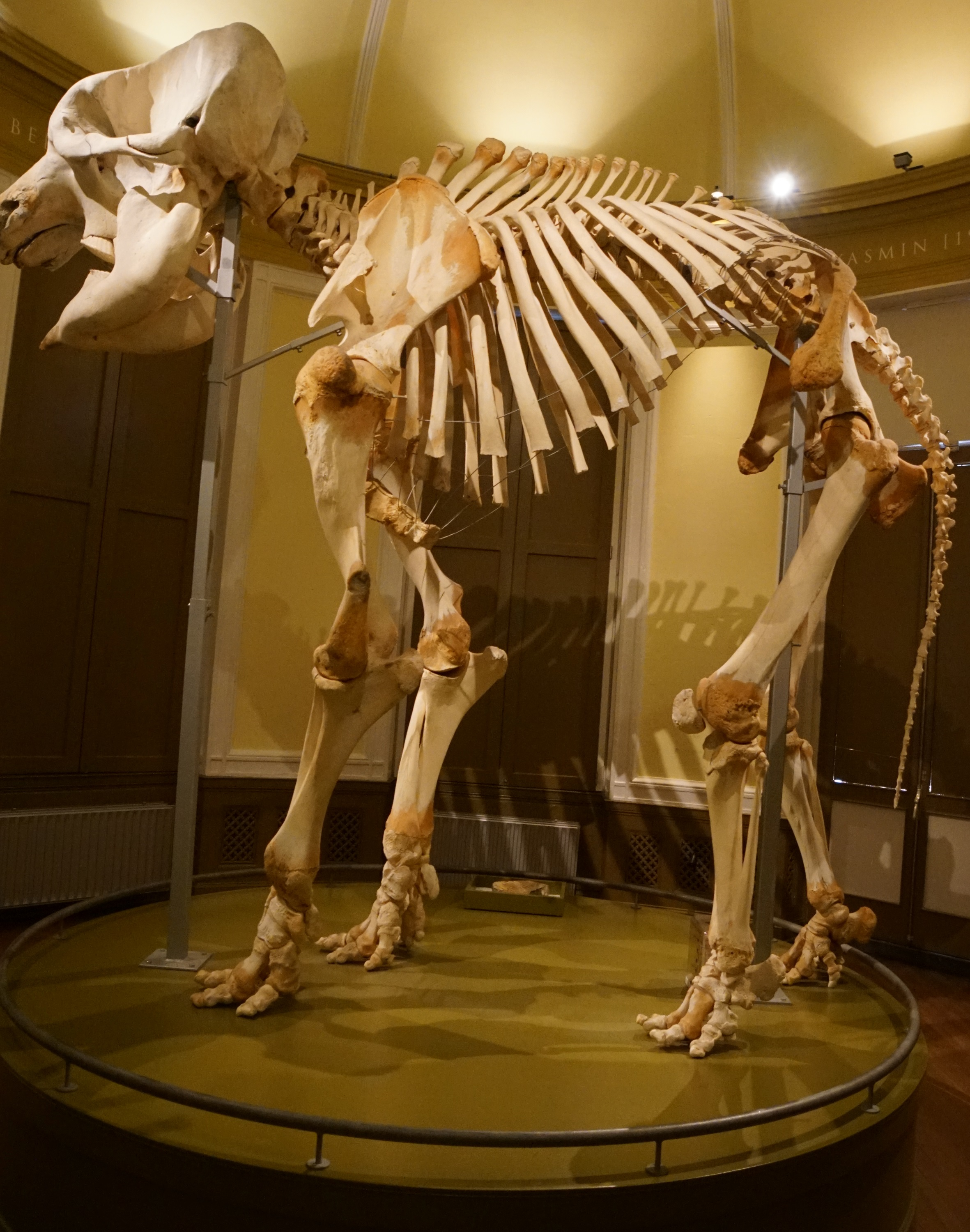 Natuurhistorisch Museum Rotterdam, skeleton of elephant Ramon from Blijdorp Zoo.